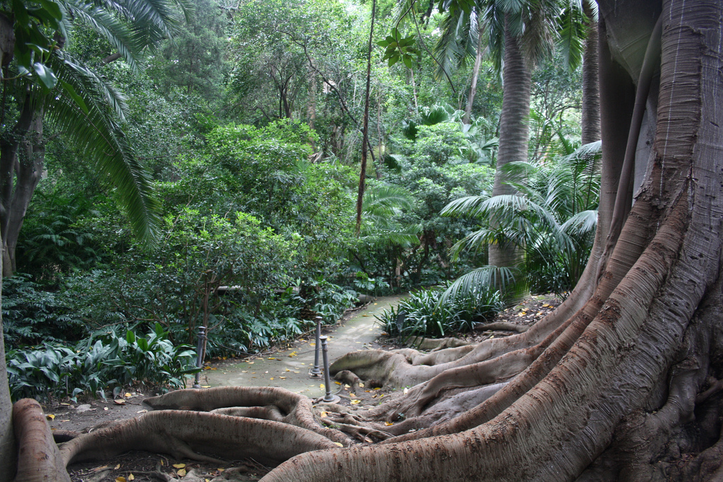 La Concepción Historical-Botanical Gardens, Malaga, Spain.